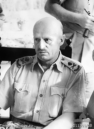 AWM Caption: Malaya. January 1942. Informal portrait of Major General Gordon Bennett, General Officer Commanding Australian Army Forces in Malaya, during a pause in his briefing of war correspondents (not seen)